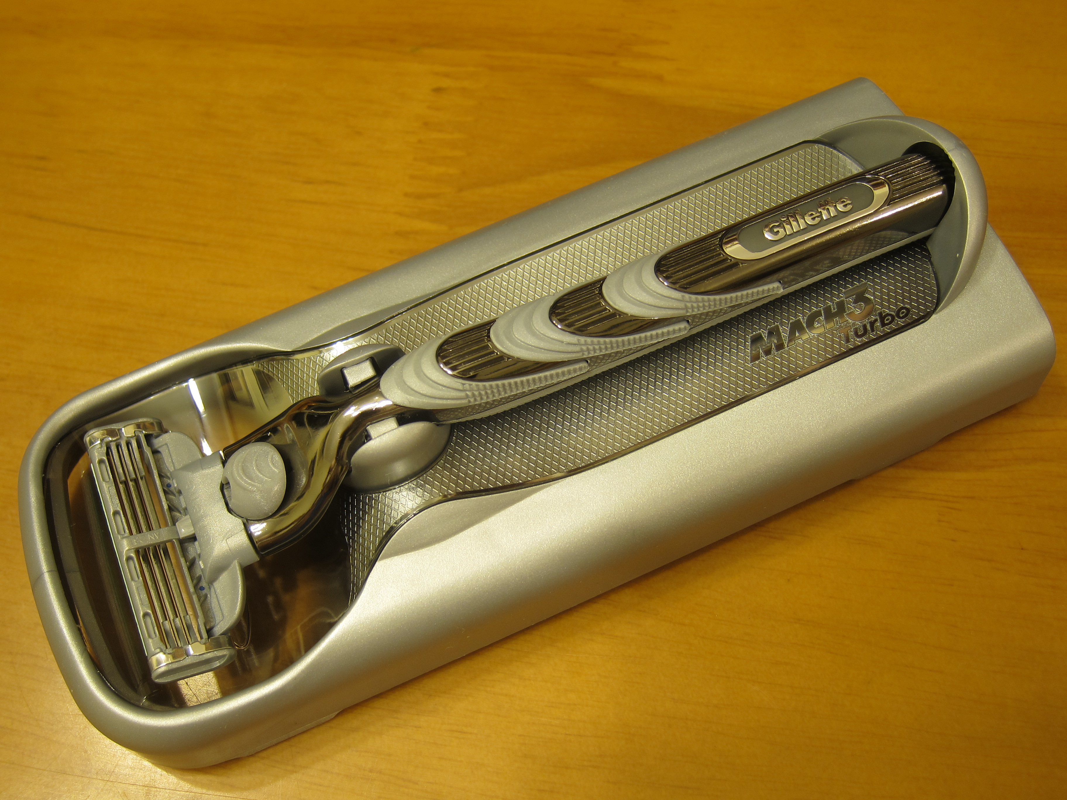 Gillette Mach 3 Turbo